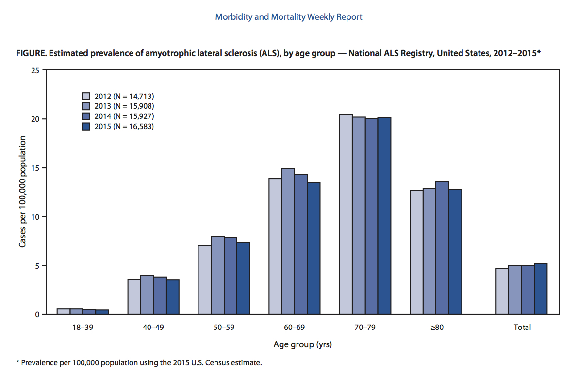 This figure shows the estimated prevalence of ALS in the United States by age group from 2012 to 2015, based on the National ALS Registry.